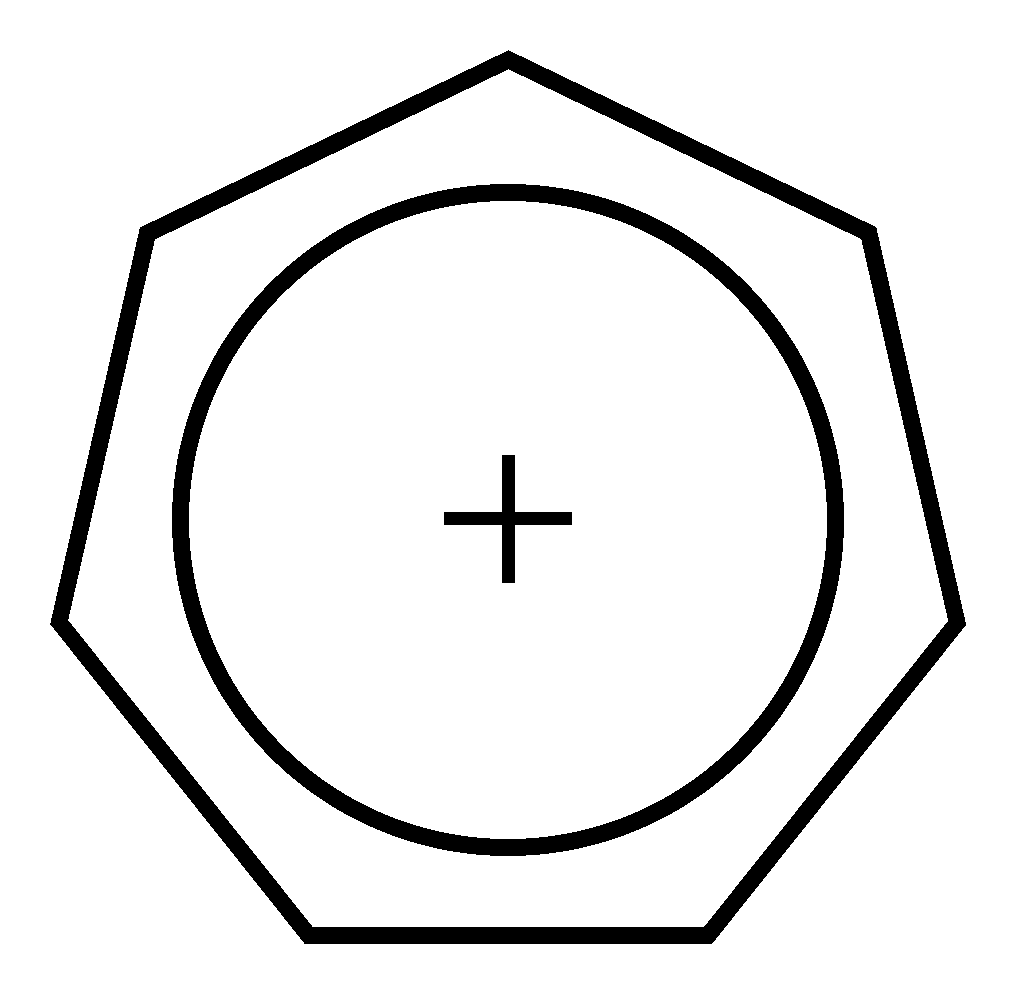 Skeletal formula of the tropylium ion, [C7H7]+